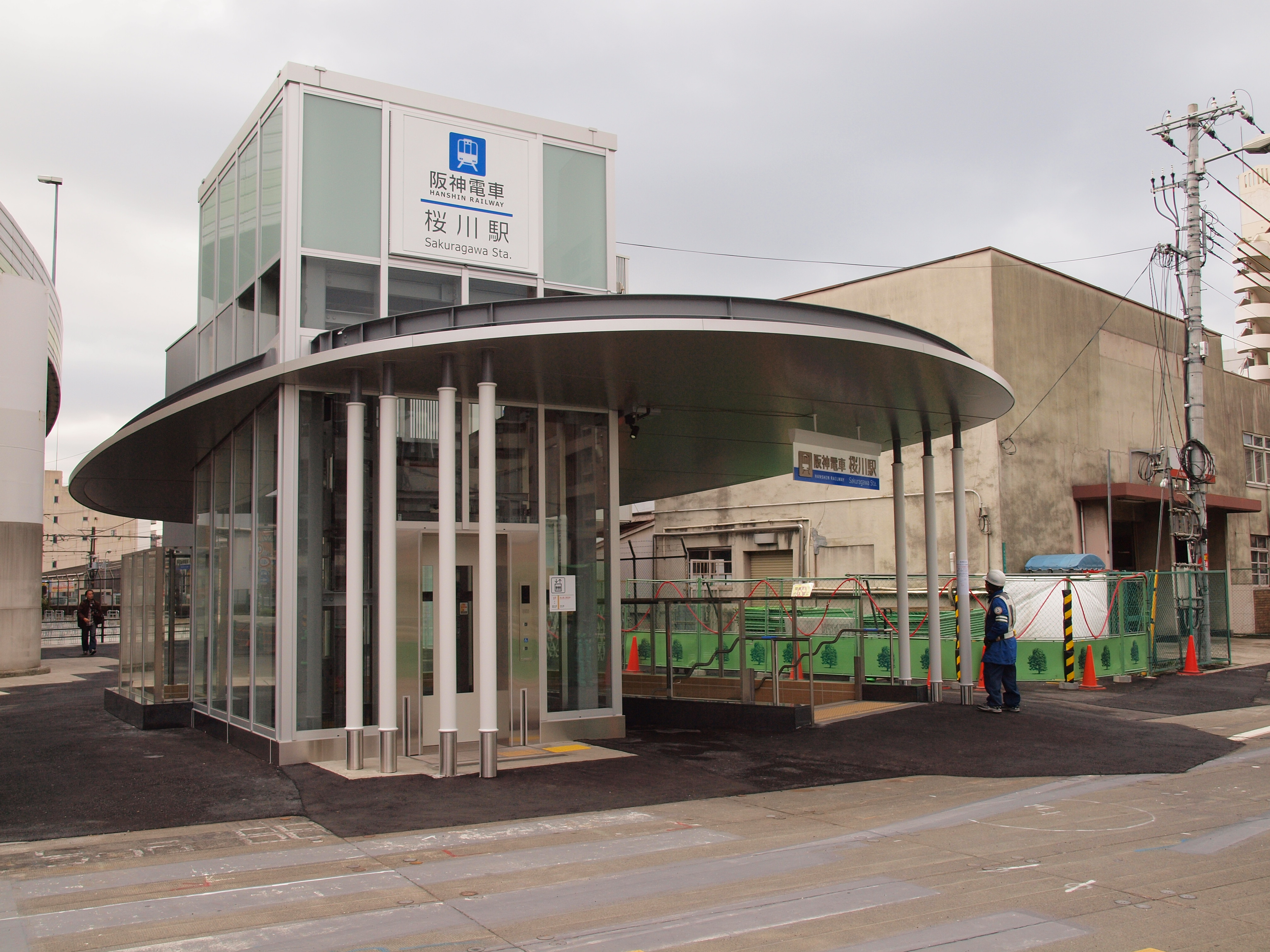 Sakuragawa station, Hansin Railway